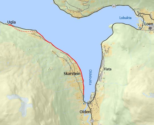 Map of road construction Ugla Skarstein, Stryn, Nordfjord, road 60.